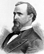 Robert H. M. Davidson, US Representative from Florida